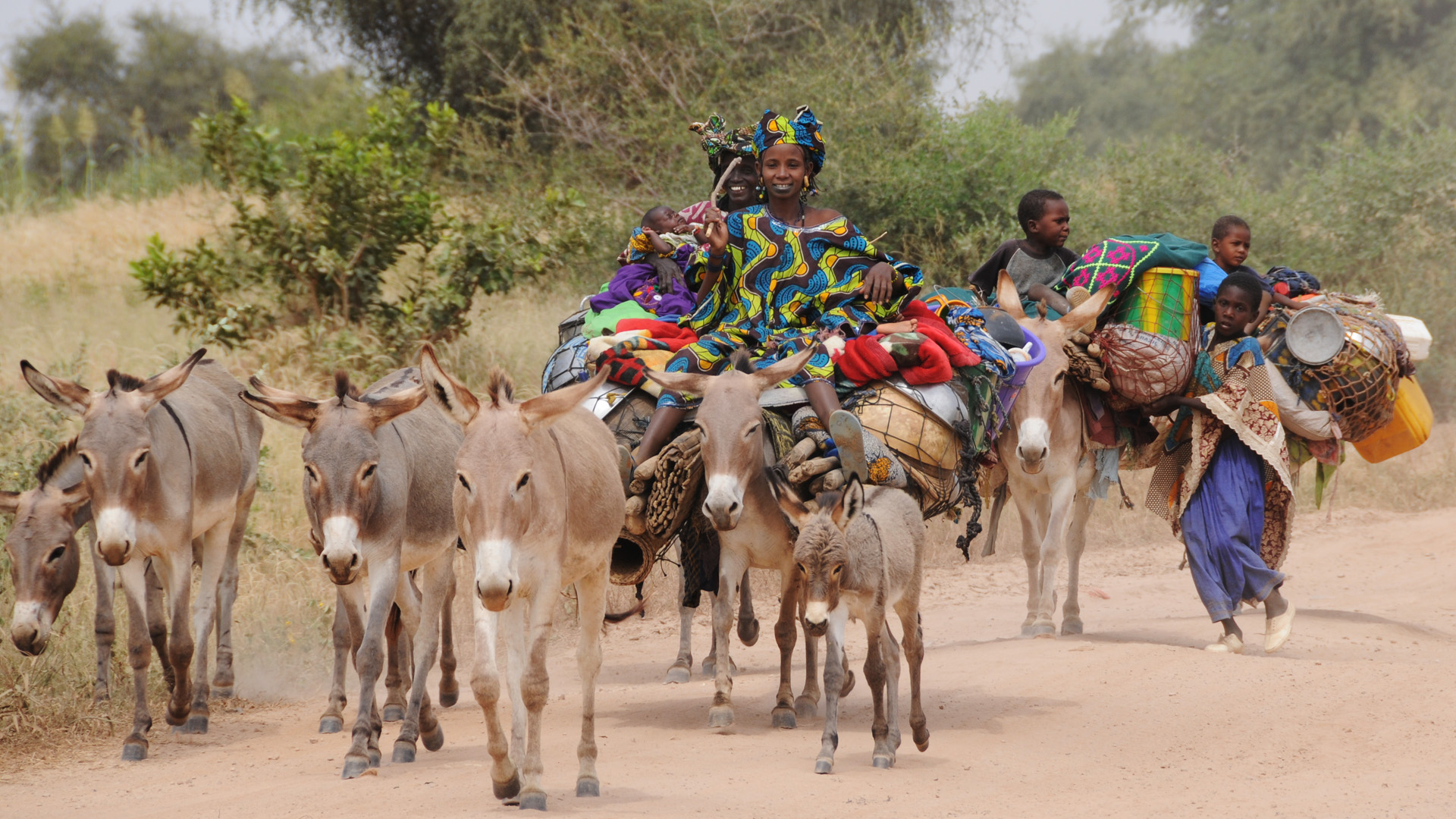 Bafoulabé, Kayes Region, Mali